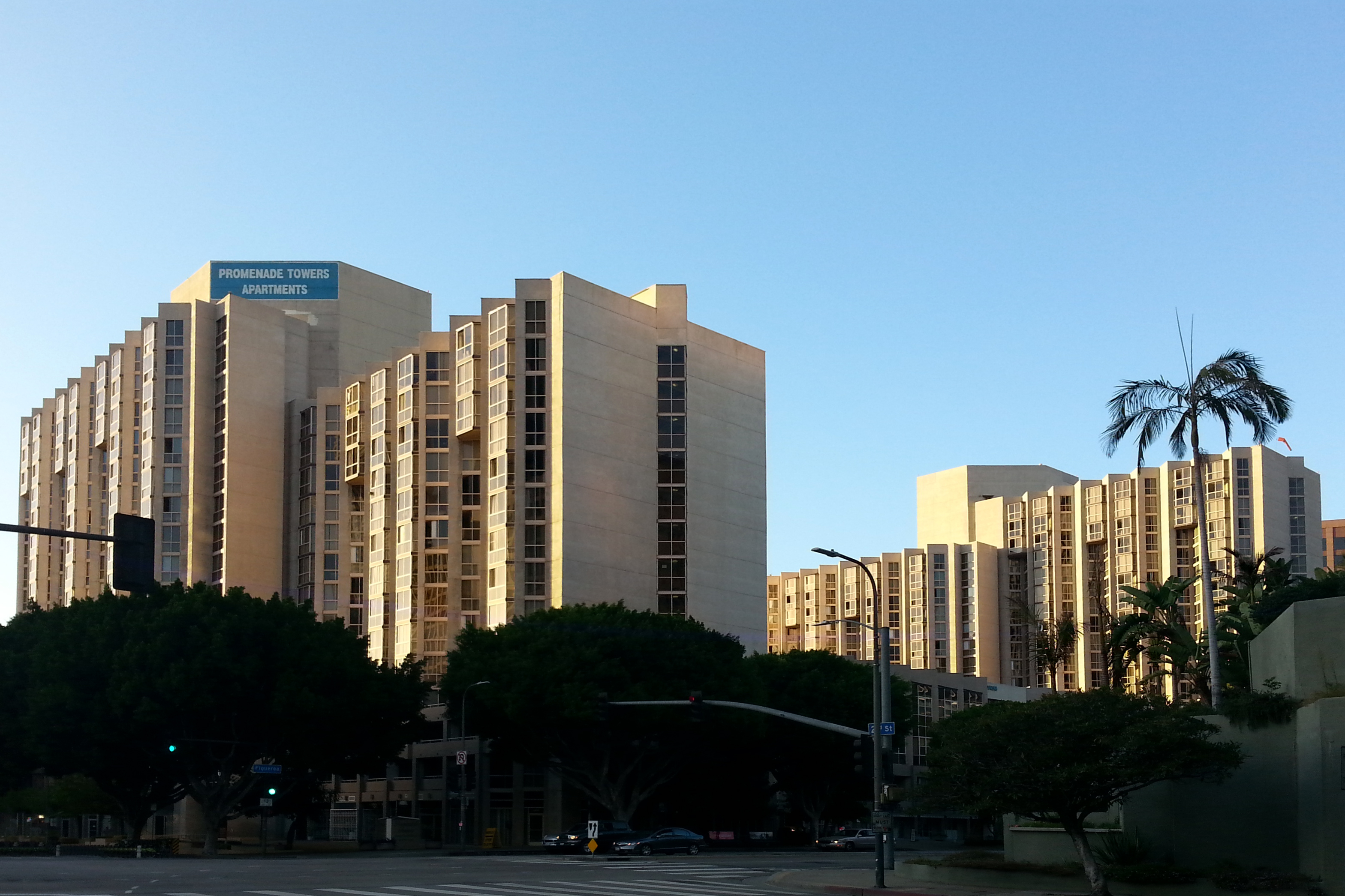 Promenade Towers in the Bunker Hill Sector of Downtown Los Angeles California on September 19, 2016 - Photo by Glenn Francis of